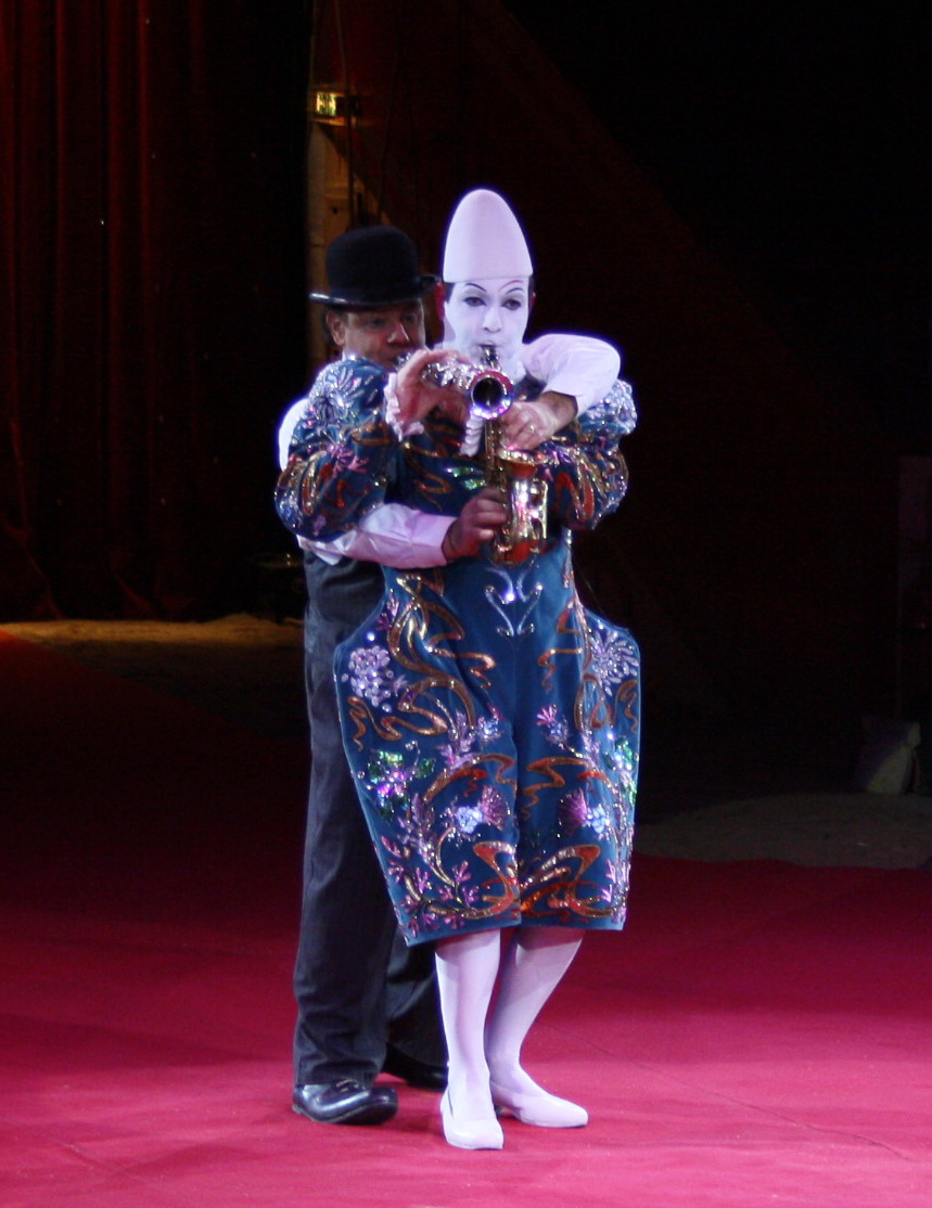 LES ROSSYANN. White clown and stupid August from France play music in the circus.